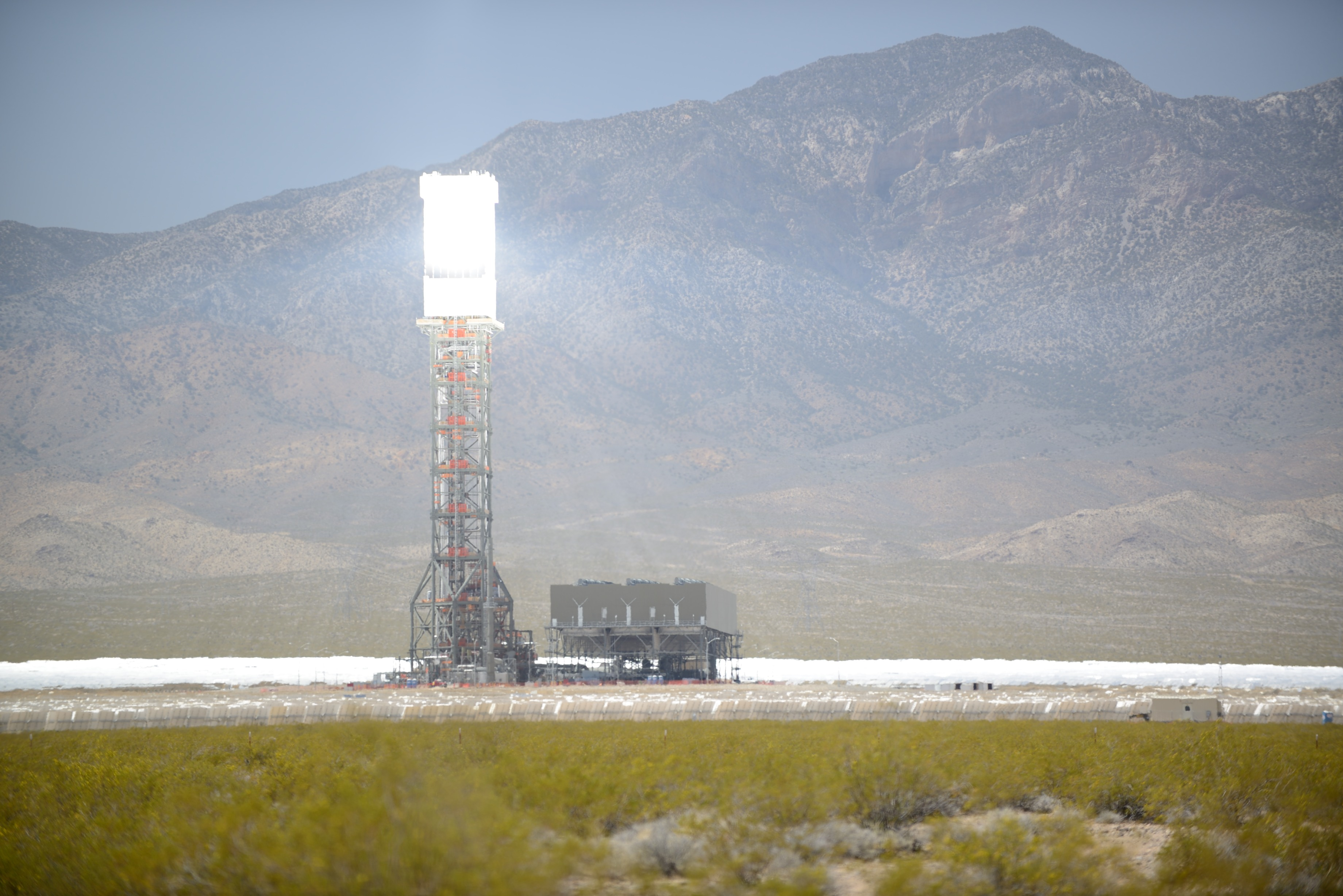 Ivanpah Solar Power Facility generating power on April 29, 2013